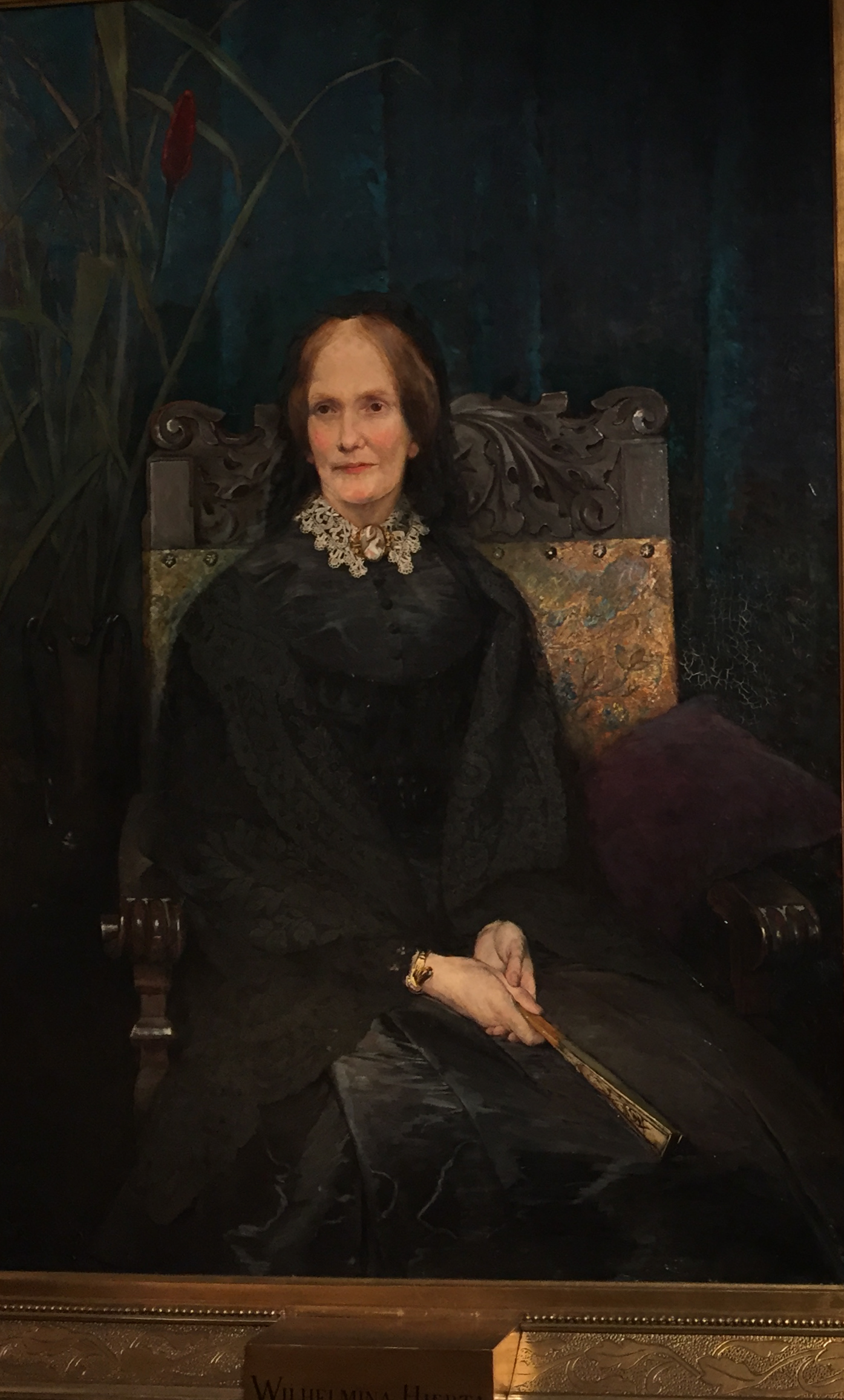 Wilhelmina Fröding Hierta, after her husband Lars Johan Hierta died in 1872, established an economics professorship at Stockholm University as well as a foundation bearing her husband's name.